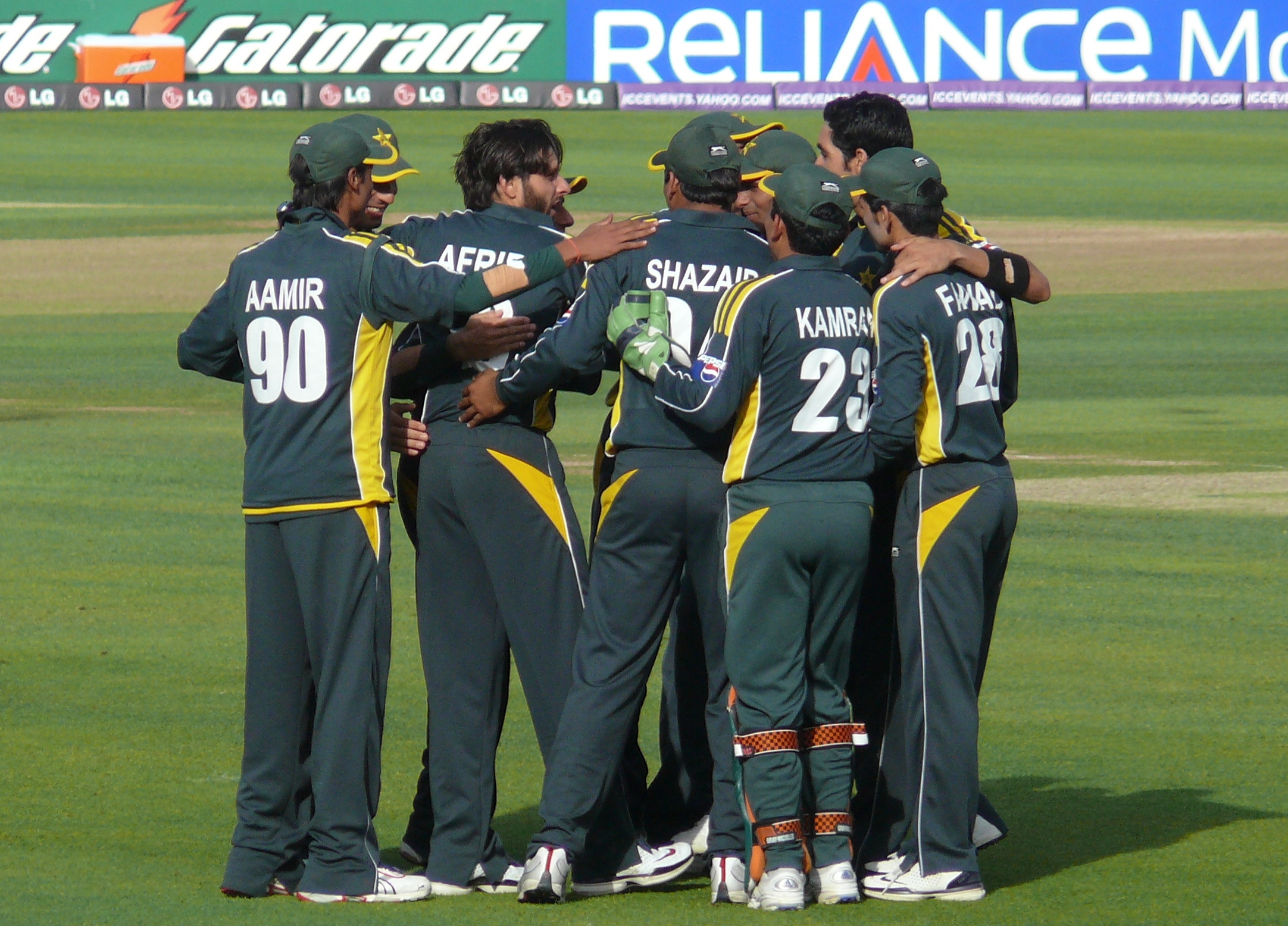 Shahid Afridi takes a great running catch @ The Oval 13.06.09. Watch